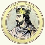 Leo VI (or V) of Armenia (r.1373-1375)